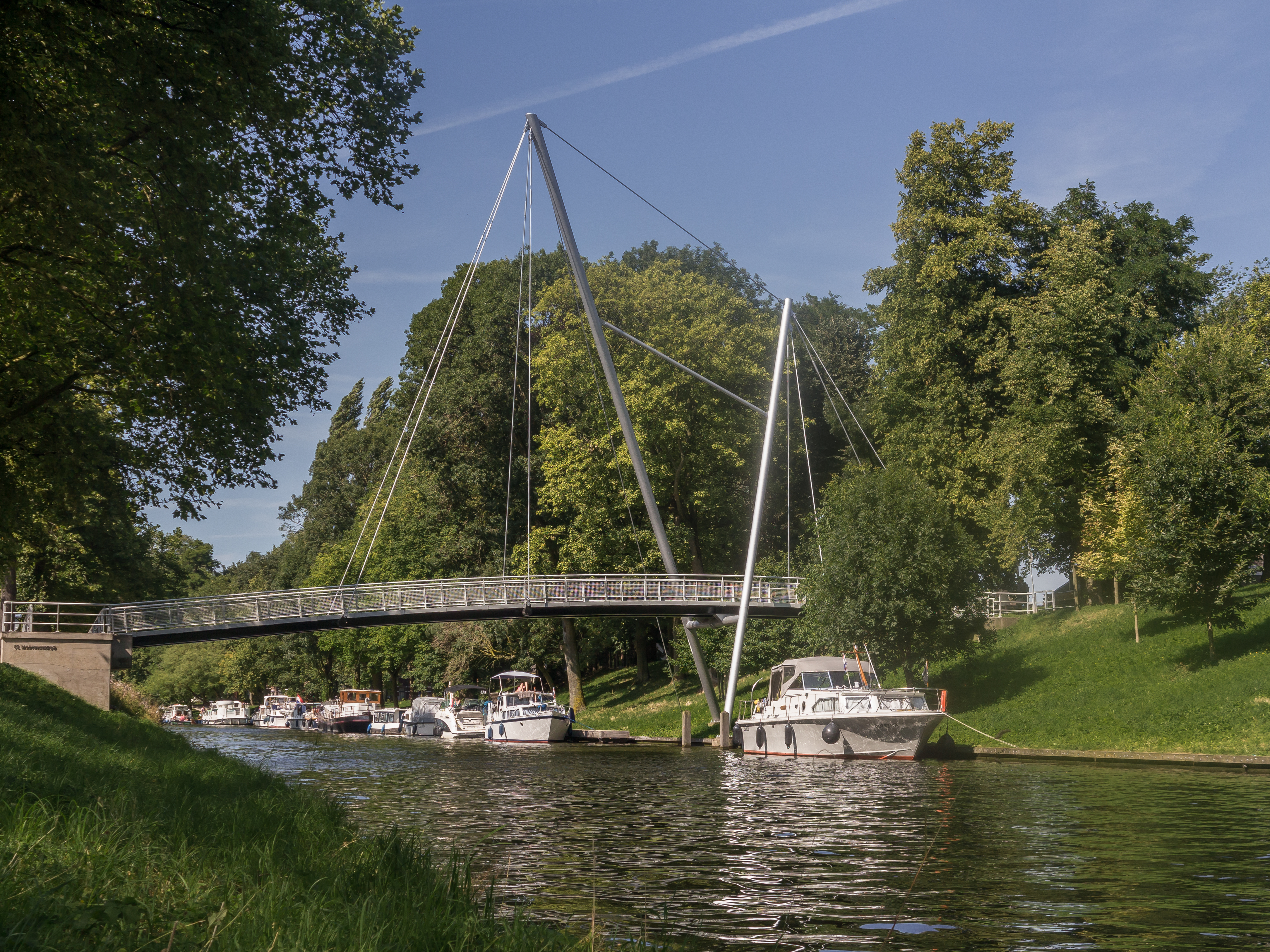 Utrecht, bridge in the city: de Sint Martinusbrug